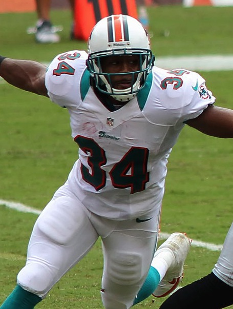 Marcus Thigpen (#34) with Phillip Adams (#28)